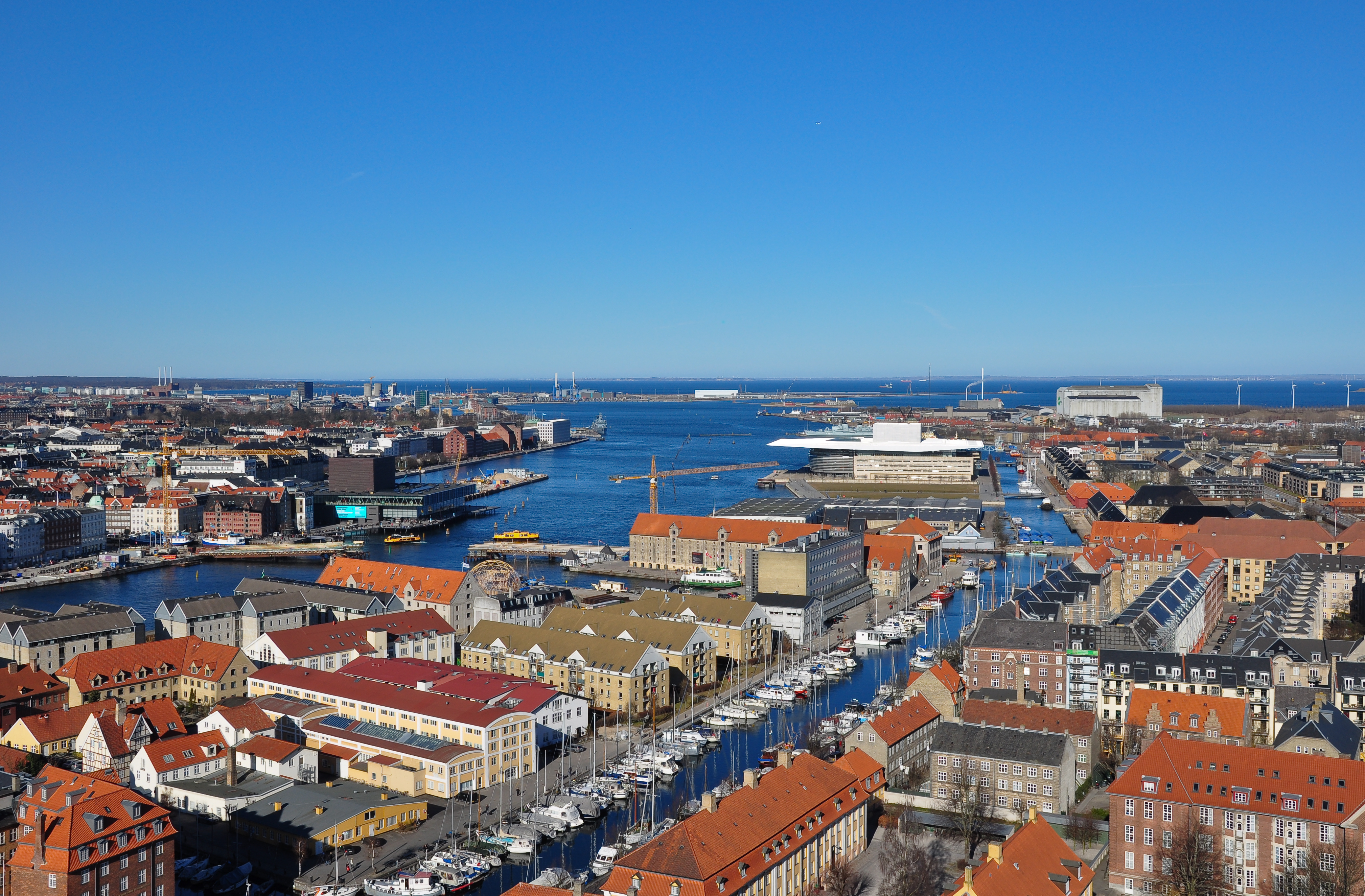 Copenhagen Port as seen from top of Vor Frelsers Kirke (March 2013)